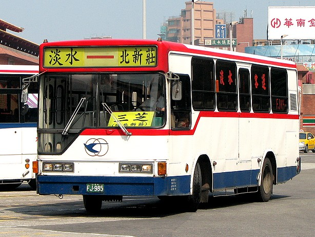 Fuso MK117JL bus FJ-985 with "Tamshui - North Xinjhuang" line by Tamshui Bus.